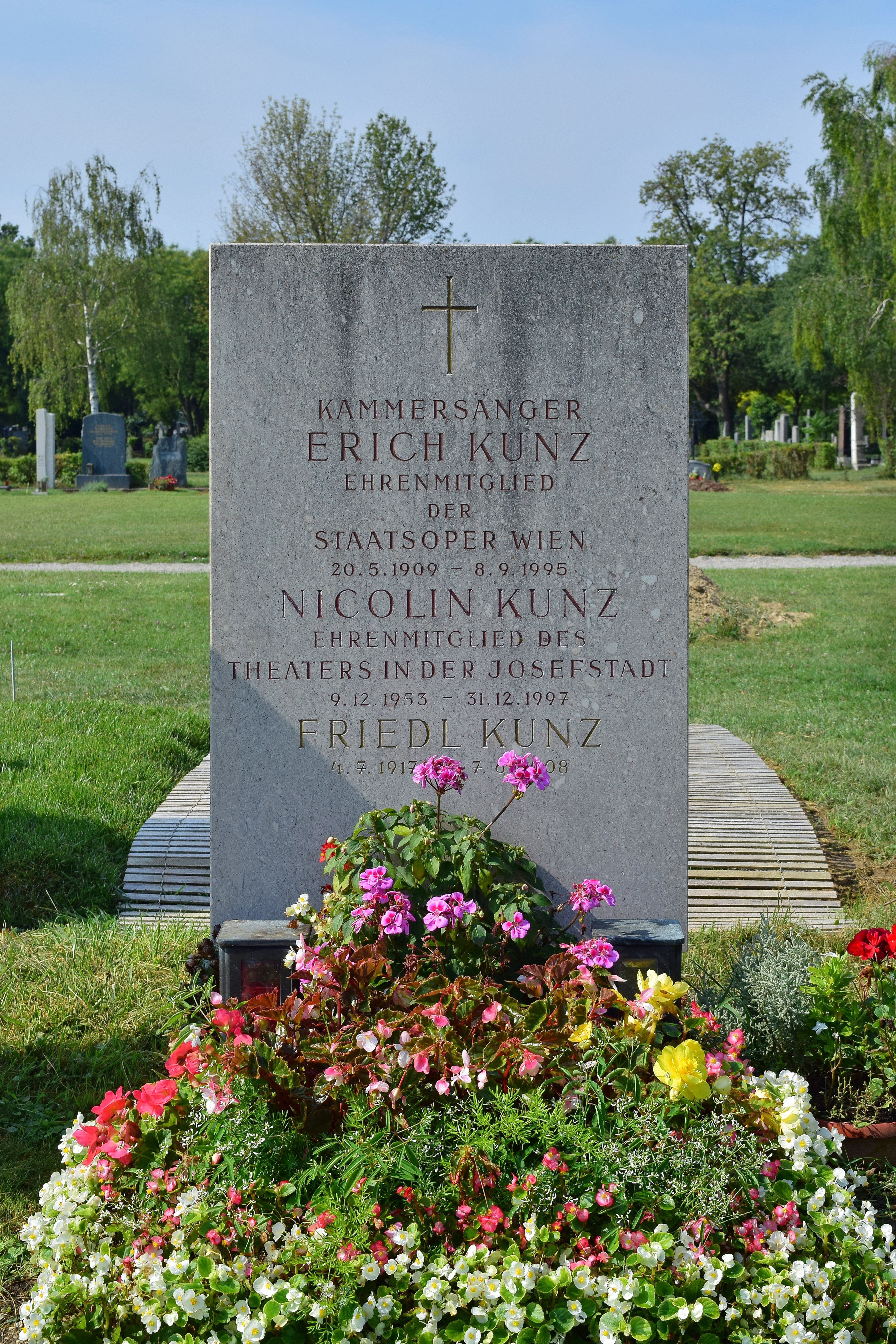 Grave of honor of Erich Kunz at the Wiener Zentralfriedhof